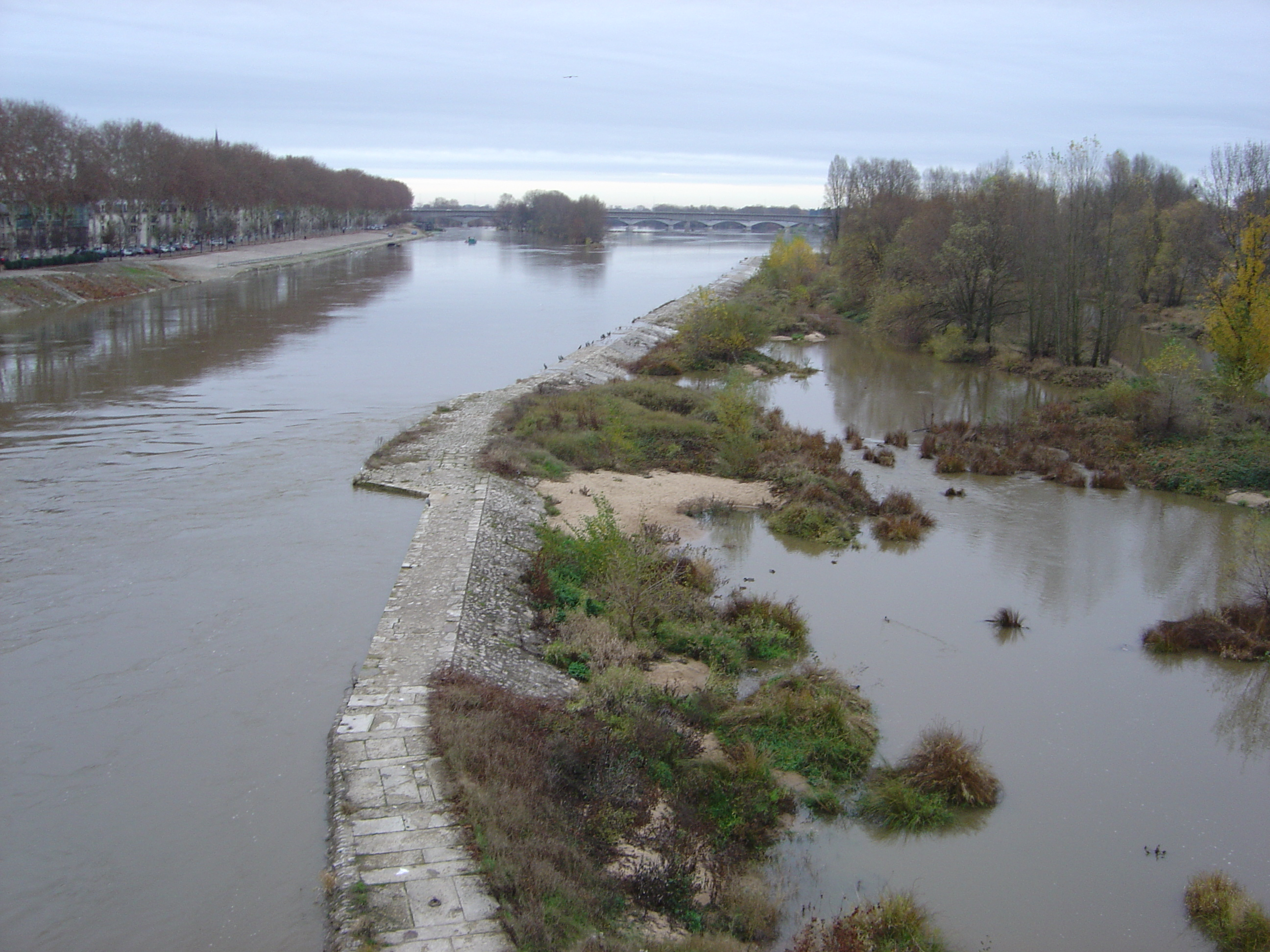 The Loire River in Orléans, France.